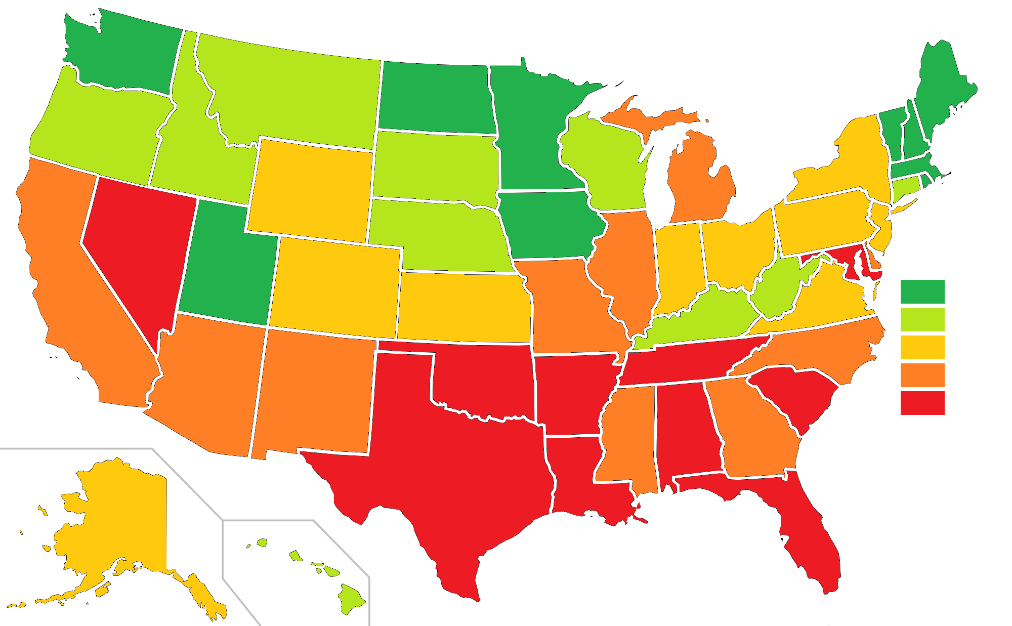 Ranks US states by peacefulness in 2011, according to the United States Peace Index Most Peaceful 2nd Quintile 3rd Quintile 4th Quintile Least Peaceful